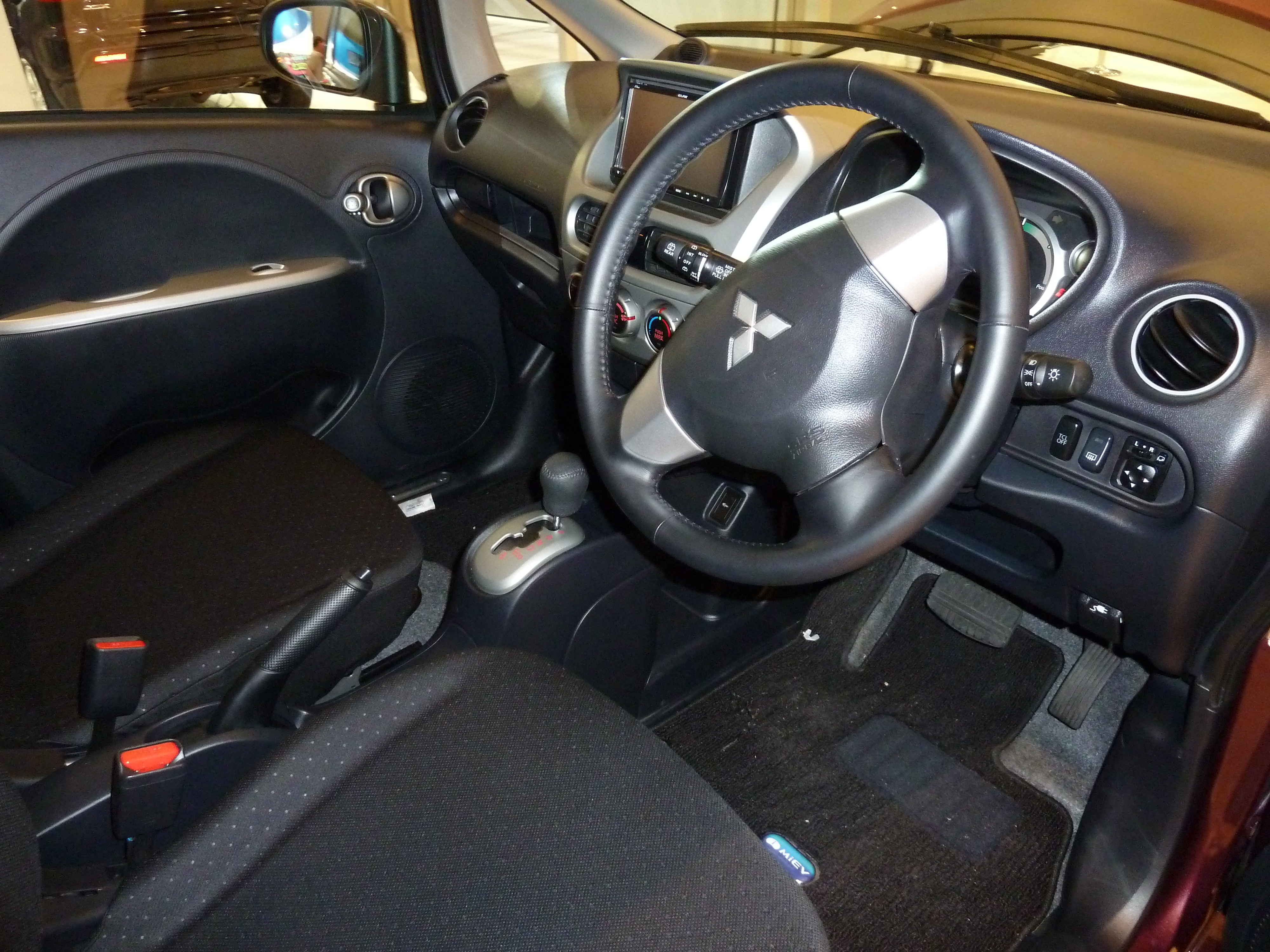 2010 Mitsubishi i-MiEV (GA MY10) hatchback. Photographed at the 2010 Australian International Motor Show, Sydney, New South Wales, Australia.